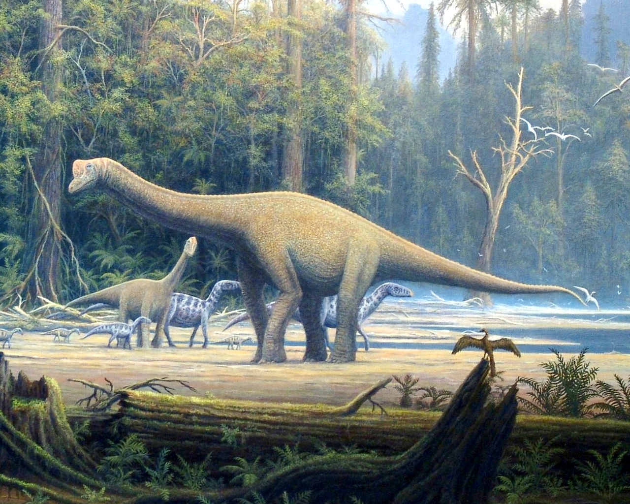 Detail of a painting of an Upper Jurassic scenery showing one of the large islands in the Lower Saxony Basin in northern Germany with some faunal elements of that epoch. There is an adult (in the foreground) and a juvenile specimen of the sauropod Europasaurus holgeri visible while several Iguanodon passing them.